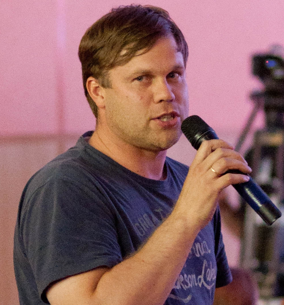 Vladislav Radimov